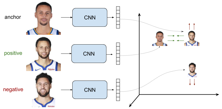 triplet loss description